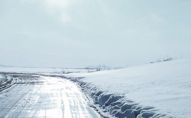 The Nome-Council Highway, located near the city of Nome, Alaska.